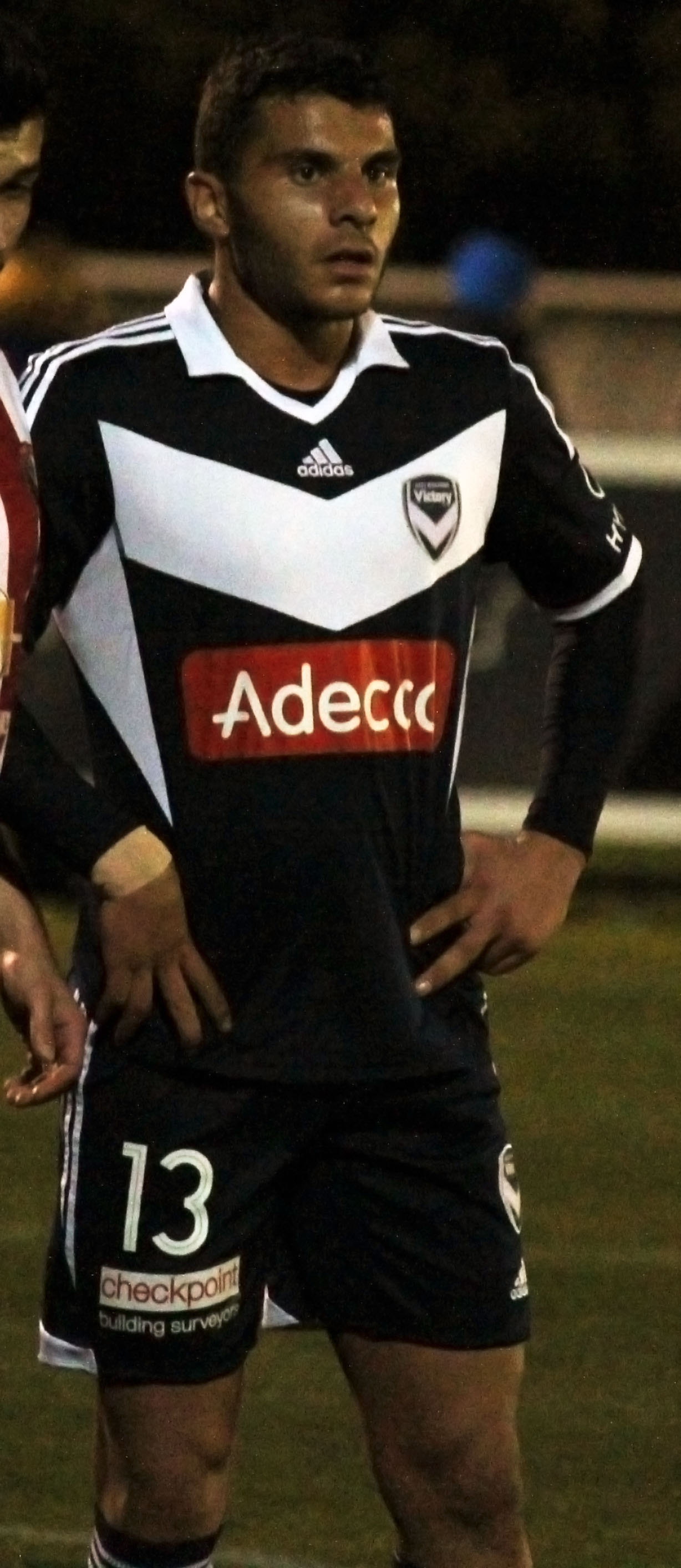 Andrew Nabbout playing a pre-season friendly for Melbourne Victory in 2014